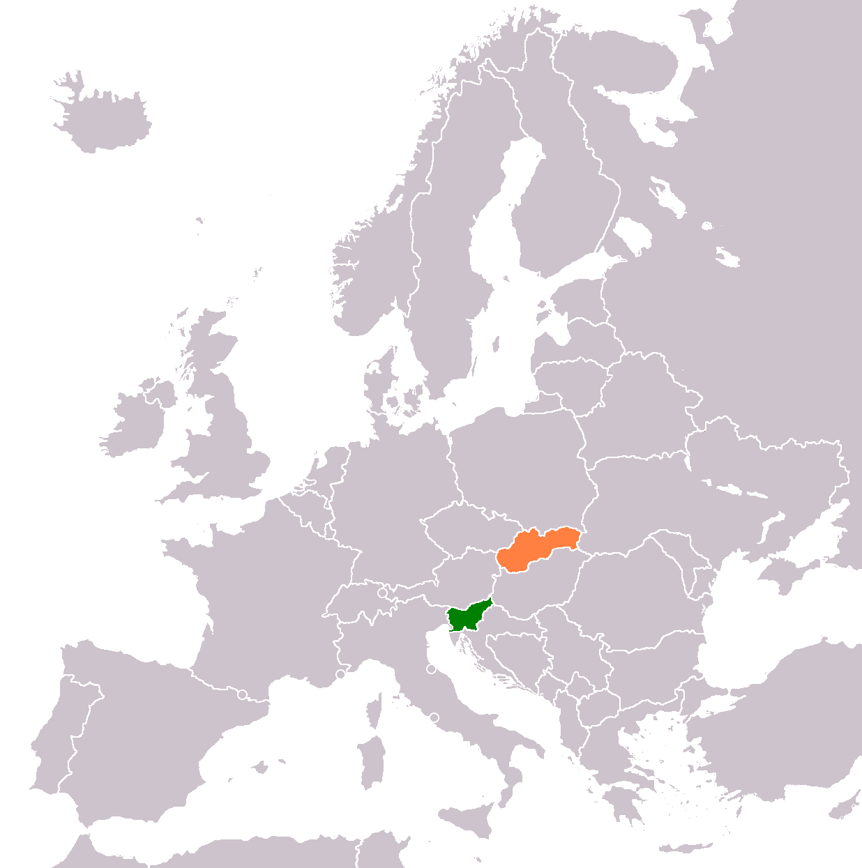 Slovenia (green) and Slovakia (orange) on map of Europe